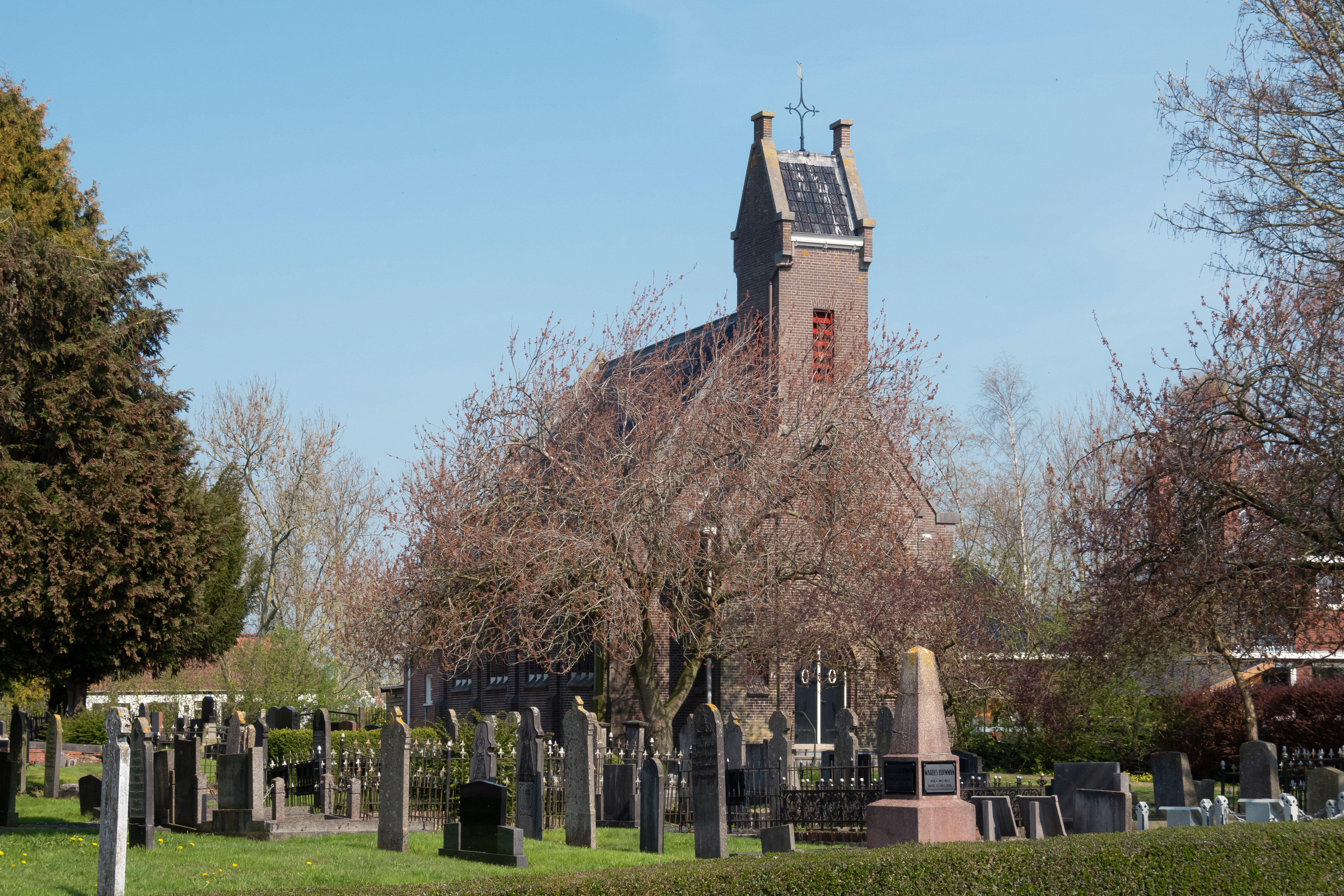 Garrelsweer, reformed church